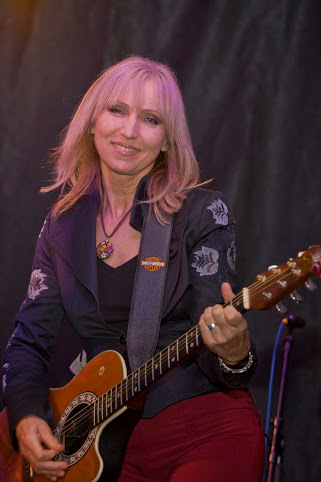 Erika Géczi Hungarian canoeists, singer